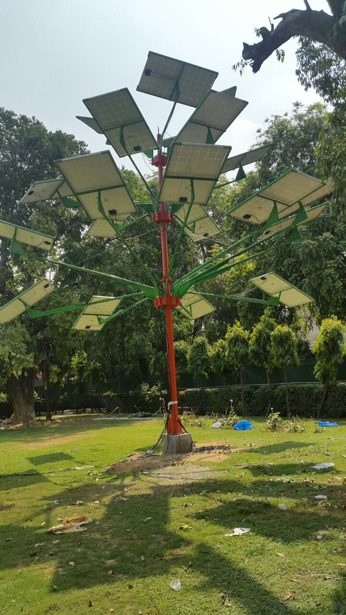 CSIR's Solar Tree